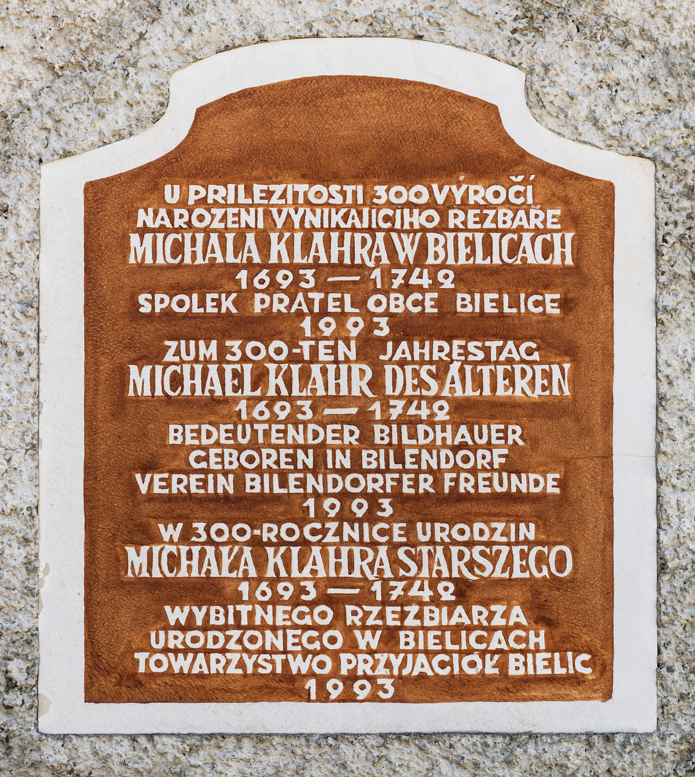 Saint Vincent church in Bielice